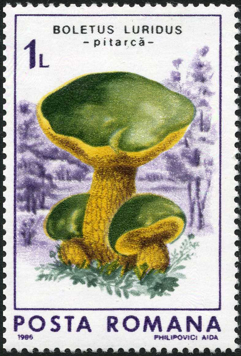 Boletus luridus Schaeff. on Romanian stamp (1986, 1 leu, Michel №4289)